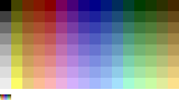 The full Atari 2600 (NTSC) color palette